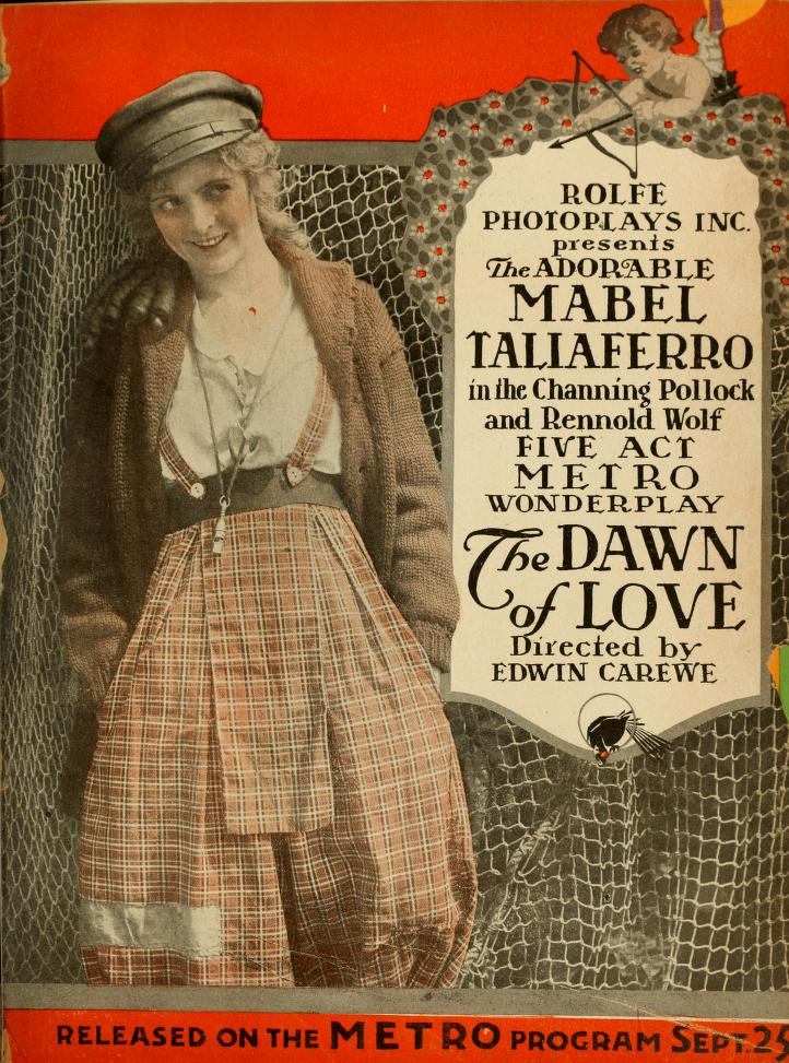 Advertisement in Moving Picture World for the film The Dawn of Love (1916).